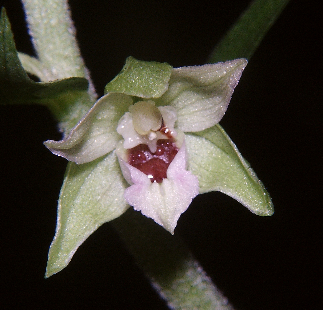 Epipactis muelleri, Hohenlohe, Germany